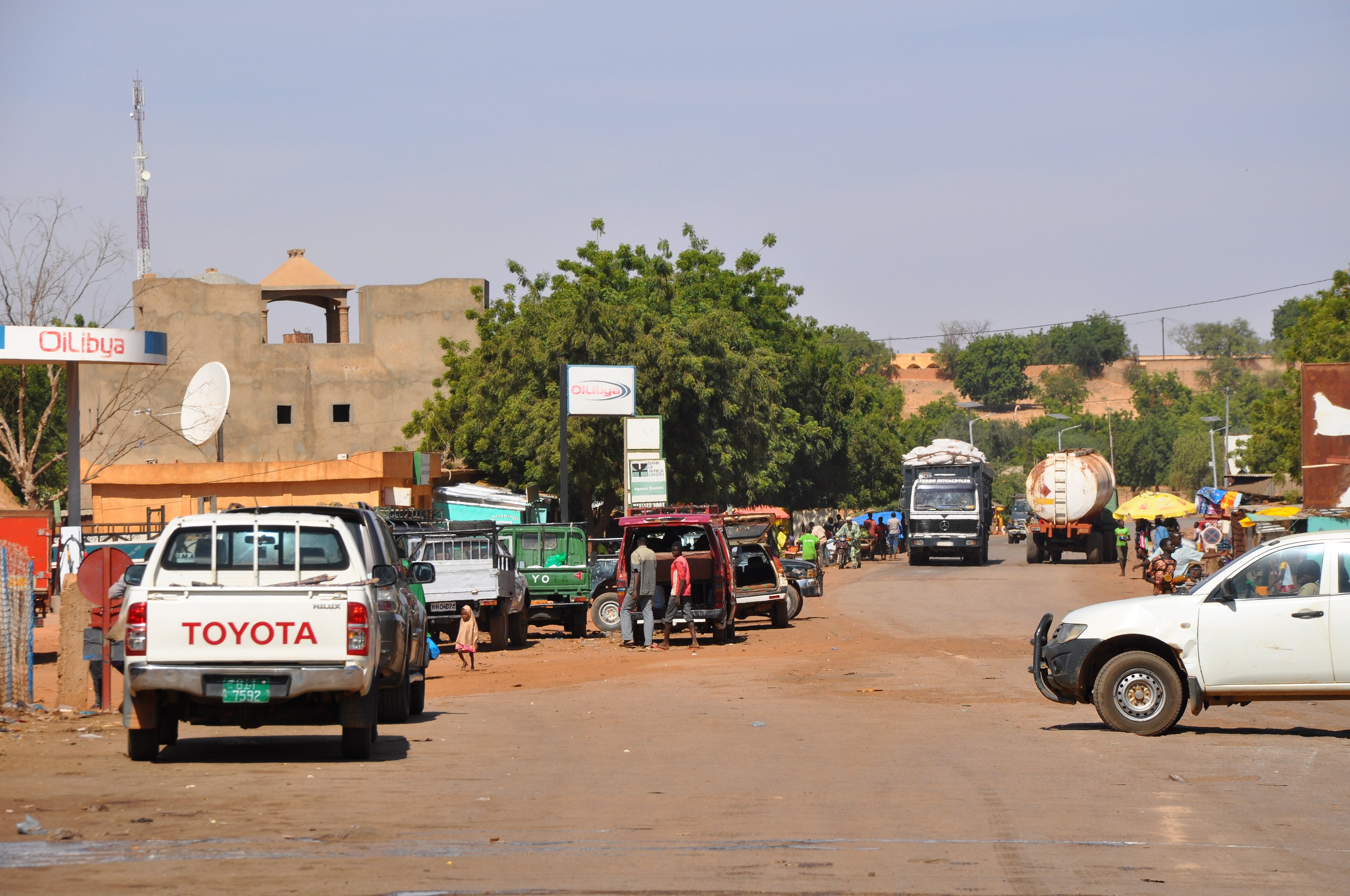 A street scene in the town centre of Dogontdoutchi, Niger (Department of Dogondoutchi; Dosso Region)